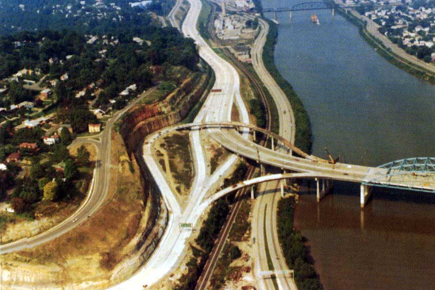 The U.S. Route 119 (Corridor G) Fort Hill interchange under construction in 1973 in Charleston, West Virginia. Image taken by Ray Lewis of the West Virginia Department of Transportation.